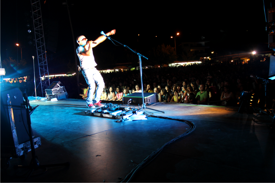 S. João - Pedro Abrunhosa